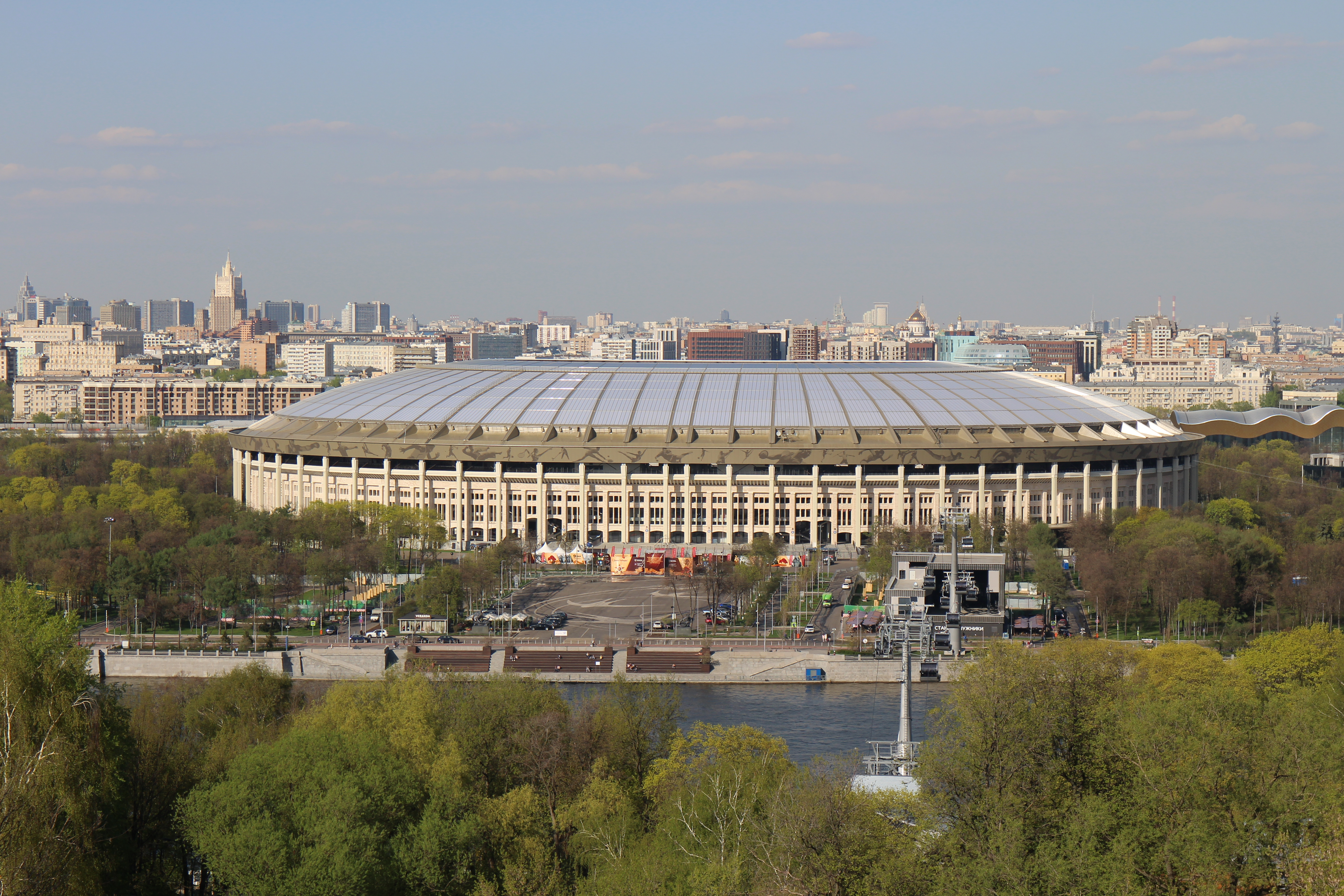 Luzhniki Stadium